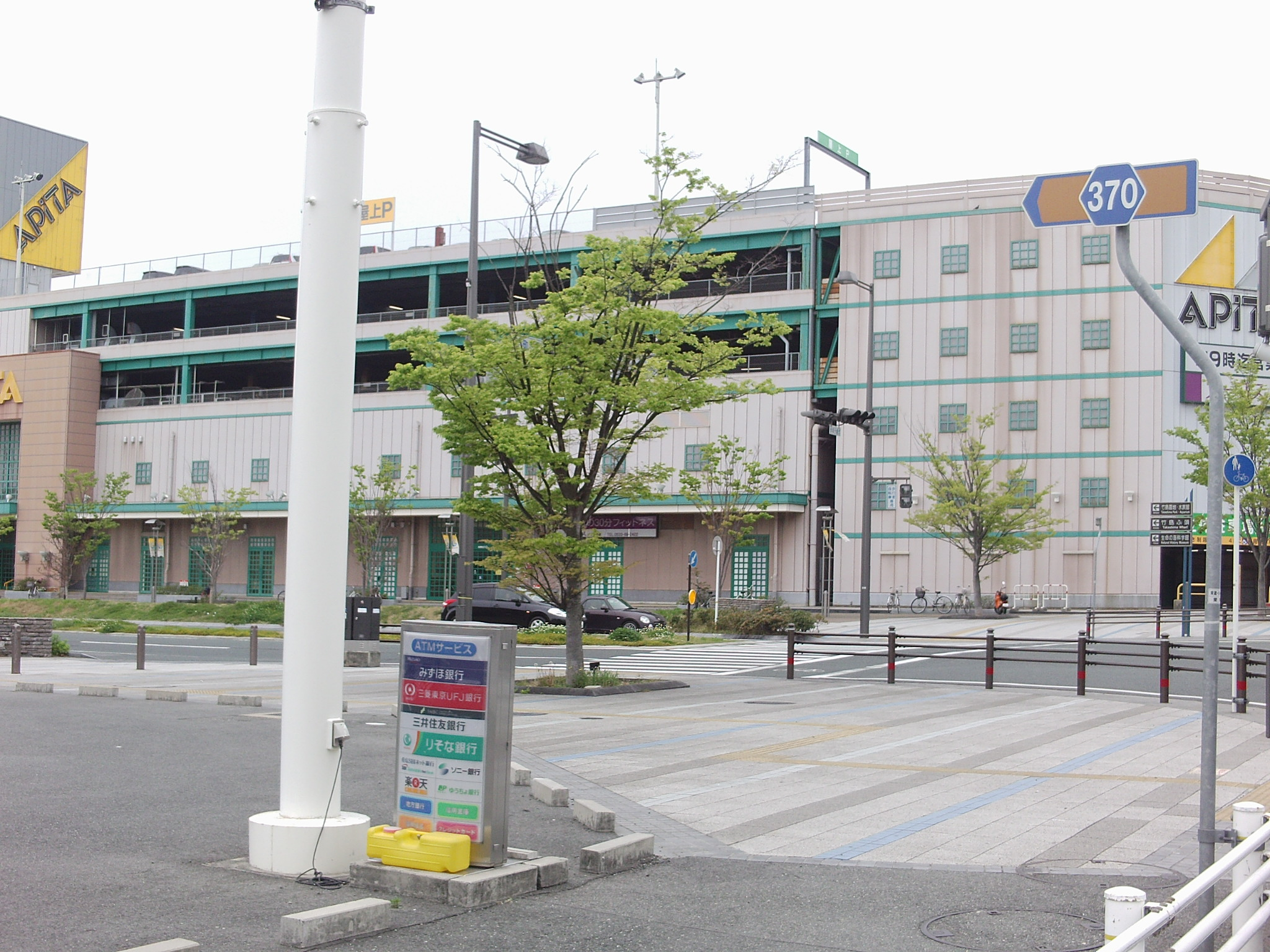 Aichi prefectural road No.370 in Minatomachi, Gamagori, Aichi.